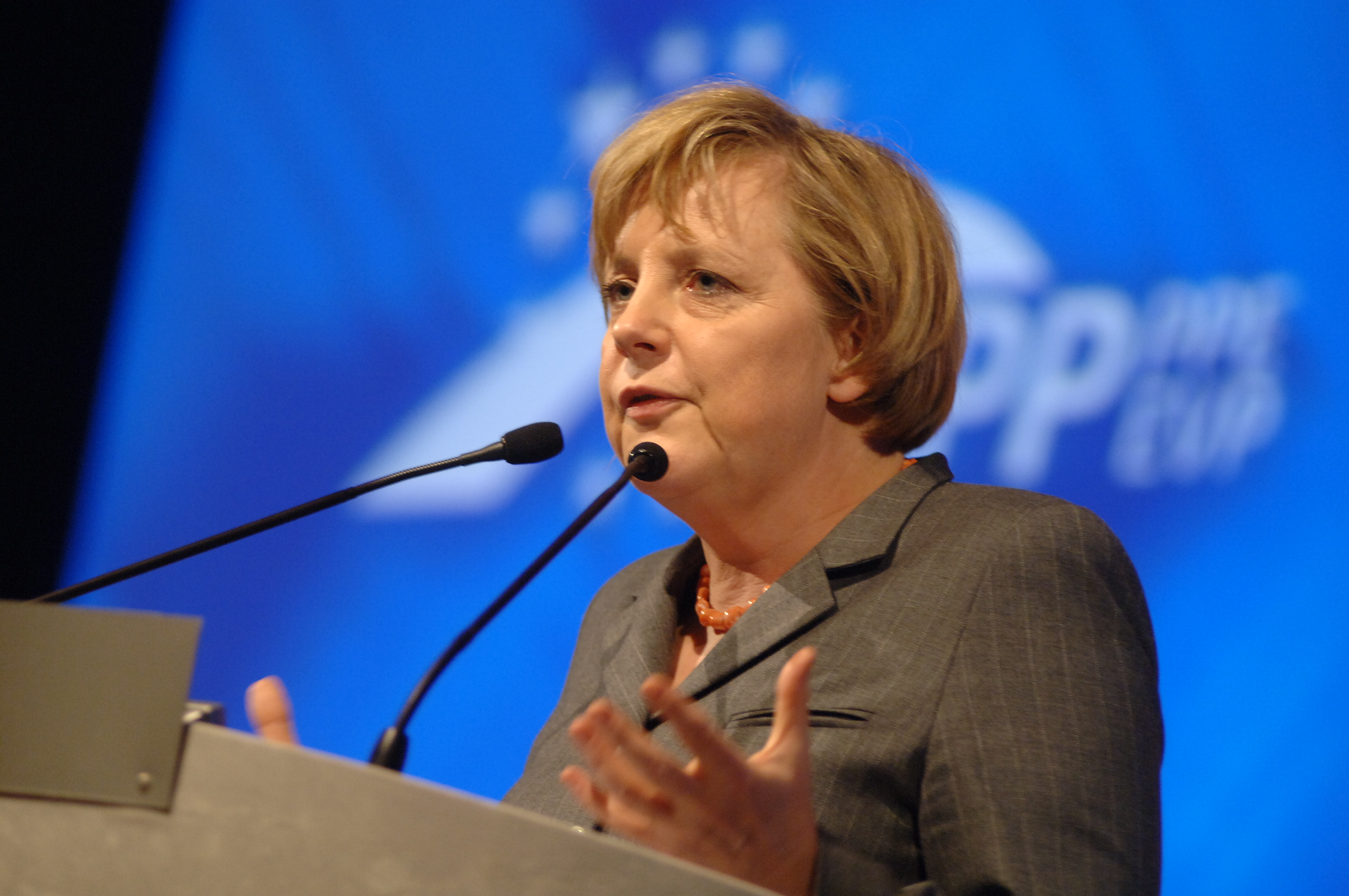 EPP Congress Rome 2006